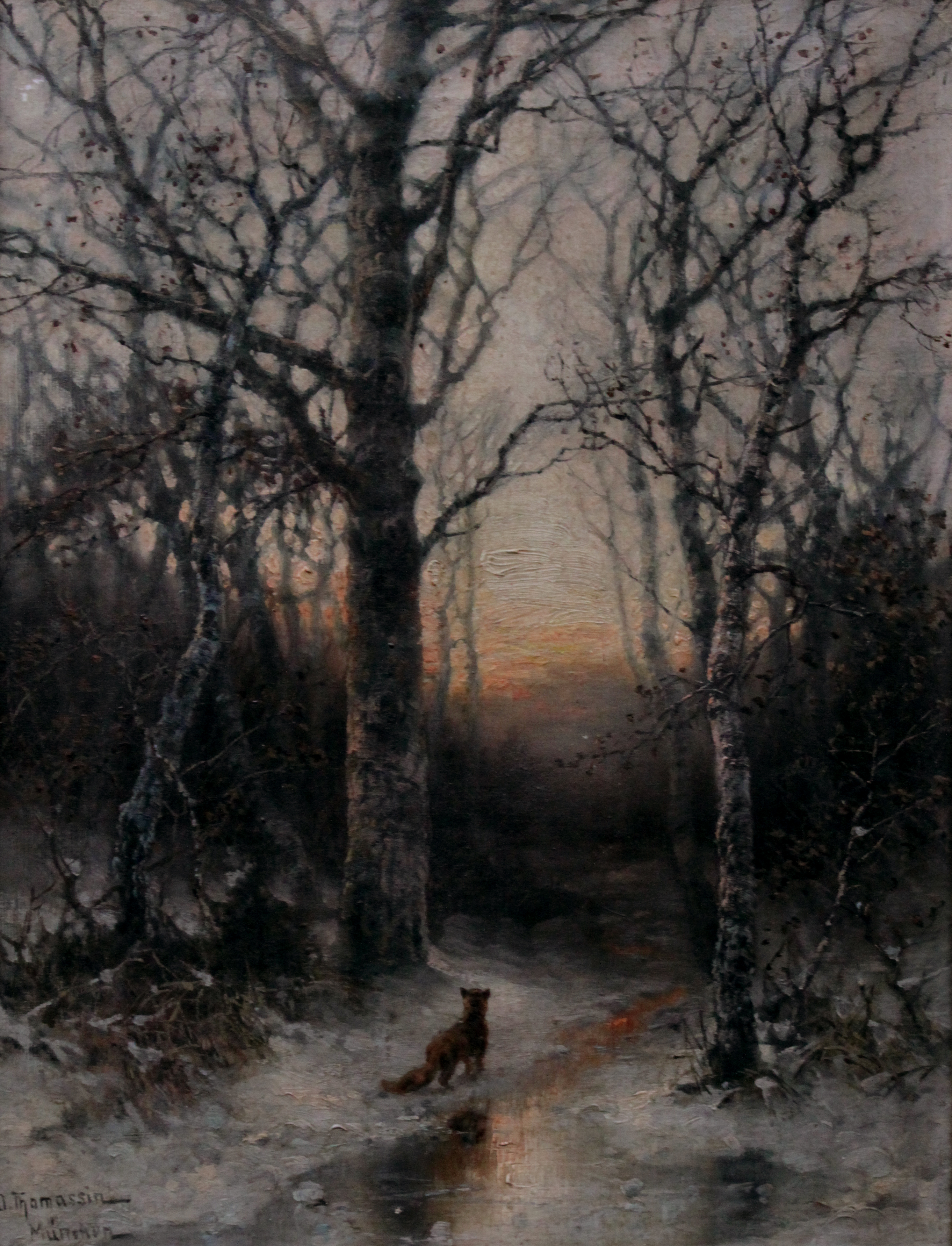 The painting shows a fox in winter forest.